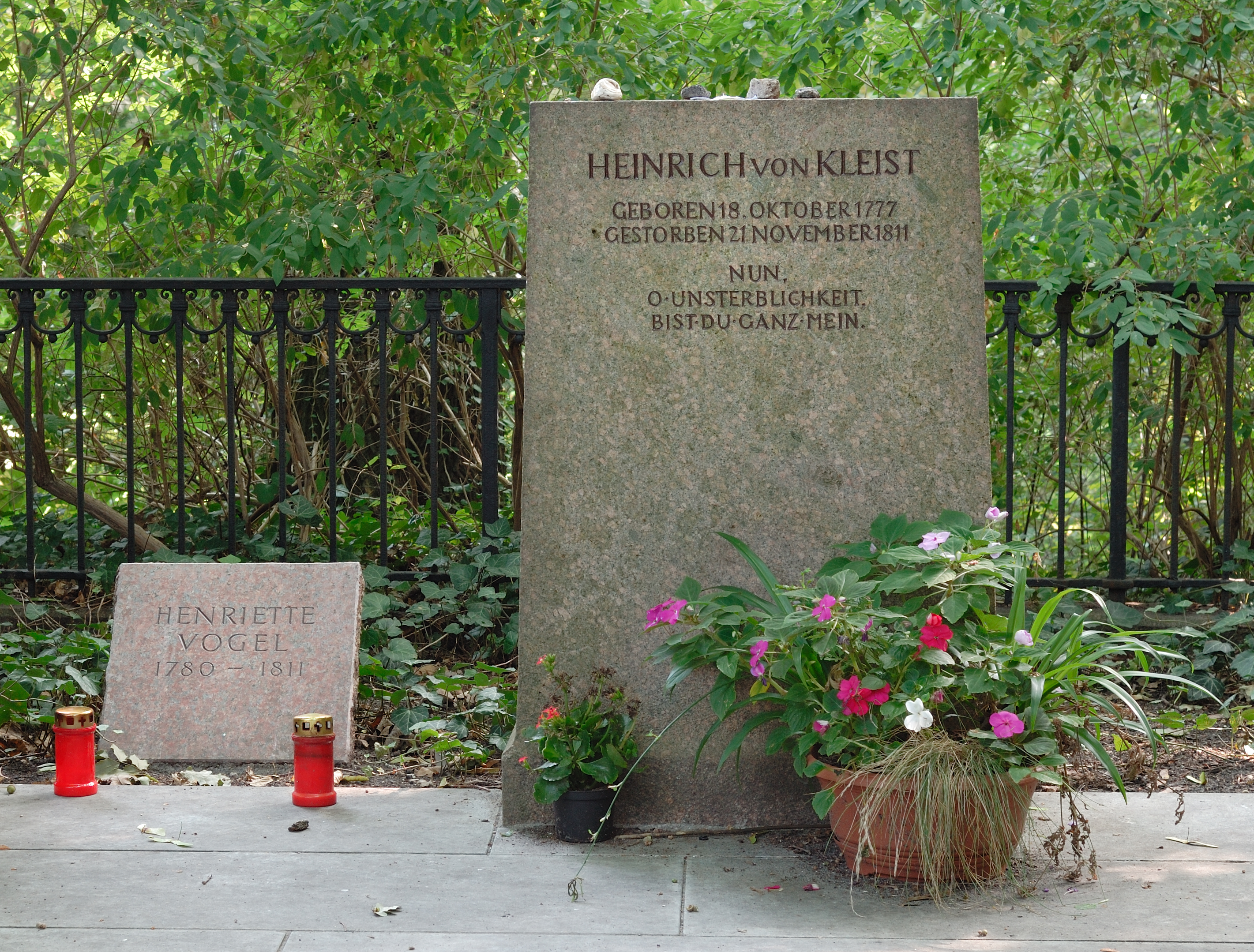 Grave of Heinrich von Kleist and Henriette Vogel in Berlin-Wannsee.